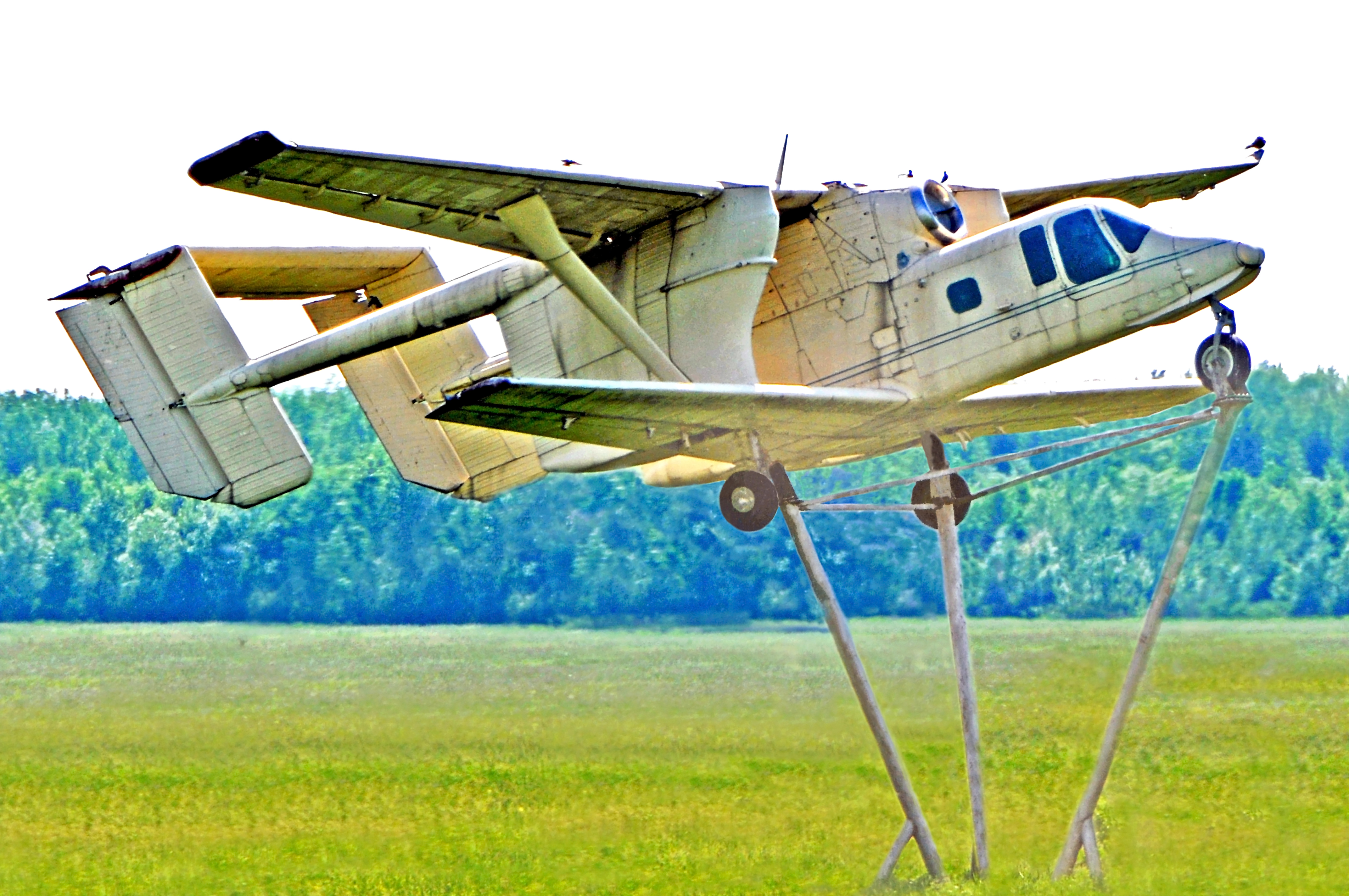 PZL M-15 Belphegor on display as a monument near Highway #4, Szolnok, Hungary. The aircraft was previously registered as CCCP-15187